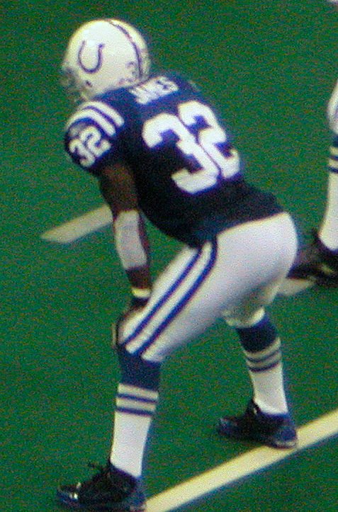 James playing for the Indianapolis Colts in 2004